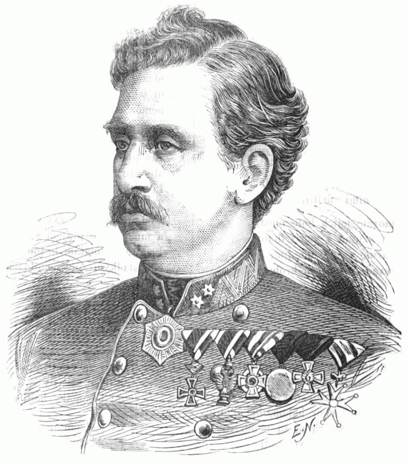 Baron Stephan Freiherr von Jovanovich (1828 - 1885), ethnic Serbian military commander of Austrian Empire